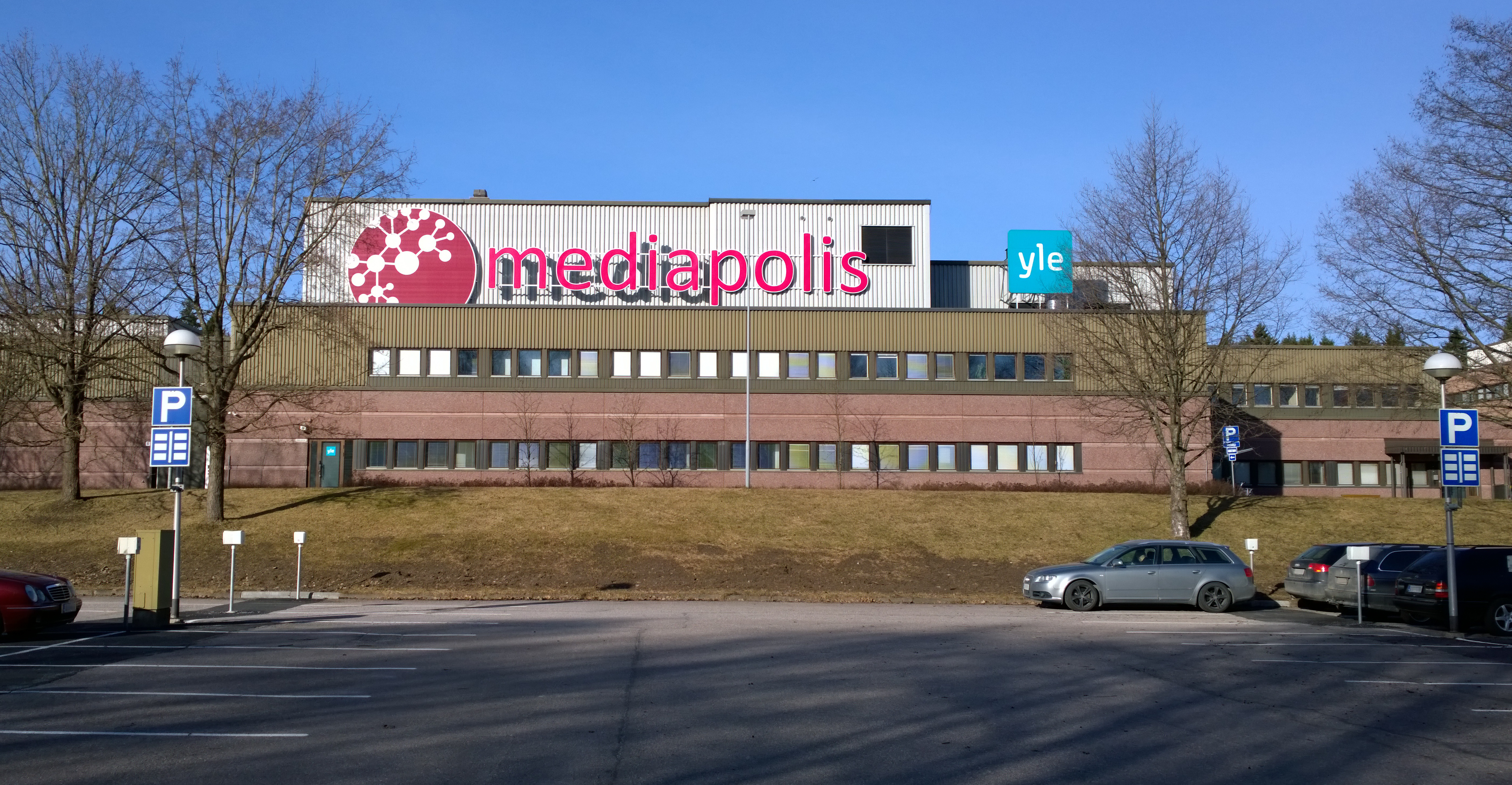 Yle Mediapolis Tampere, Ristimäki district.